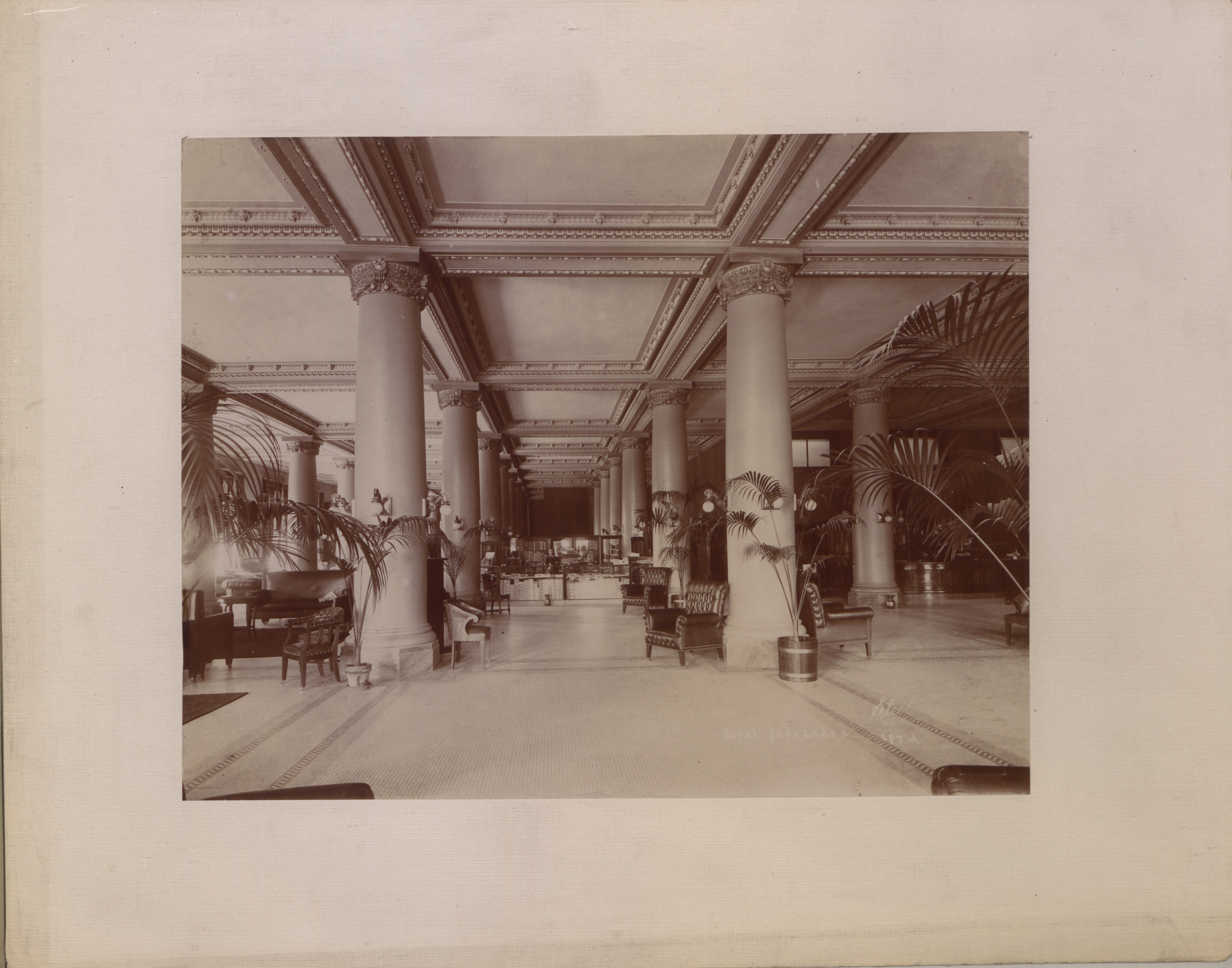 Royal Alexandra Rotunda. Photo 497 A.